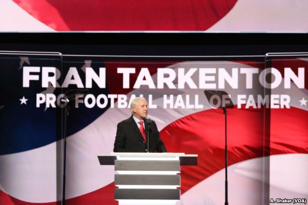 Fran Tarkenton speaks on day 4 of the 2016 RNC